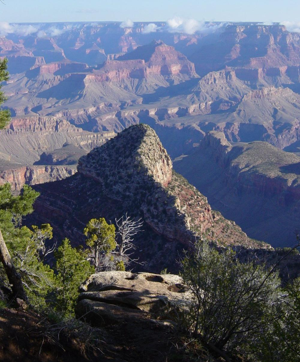 The Grand Canyon from Grandview Point taken on April 9, 2004 by Daniel Mayer.